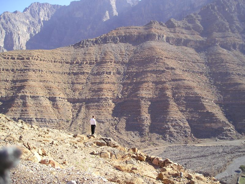 The mountainous region in the north.